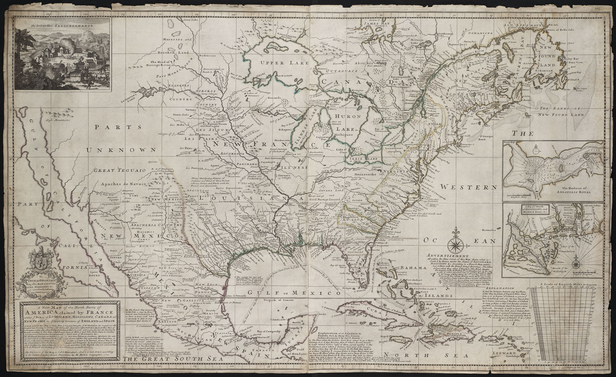 Zoom into this map at . Author: Moll, Herman Publisher: Sold by H. Moll Date: [1720] Location: North America Scale: Scale ca. 1:7,000,000 ; Call Number: G3300 1720.M6 In 1720, London geographer and mapmaker, Herman Moll, published this map focusing on France's North American possessions. In a message below the title, he warned his British audience of French encroachment on neighboring English interests in the region and urged them to preserve old friendships with the Iroquois and Cherokees. The depiction of the Southeast was based on recent English surveys, particularly those of Richard Berresford and Capt. Thomas Naime. However, the Southwest, where California is depicted as island, was based on outdated information that was mistakenly accepted by European mapmakers from the mid-17th century until the early 18th century.